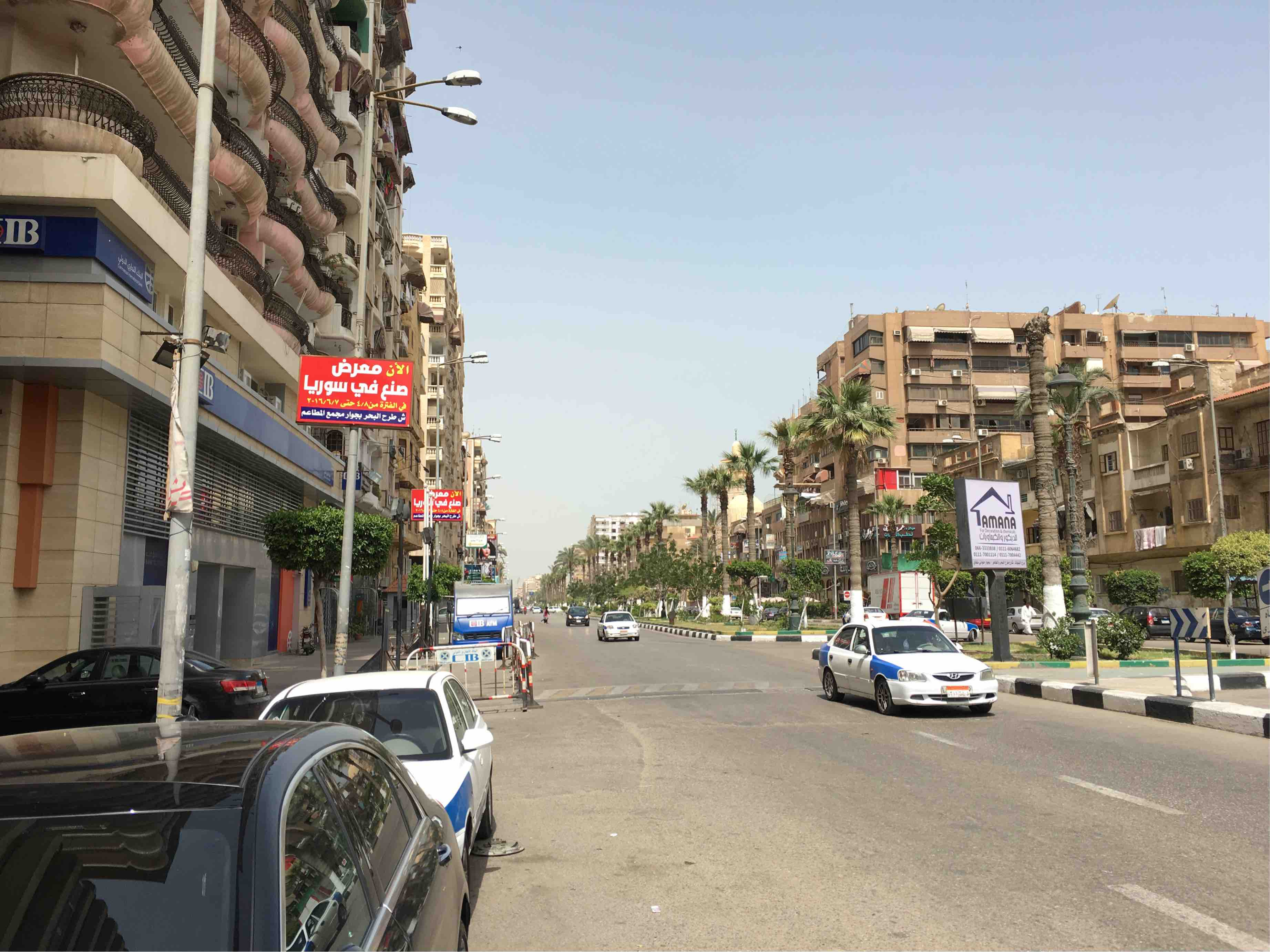 Views of Port Said by Hatem Moushir